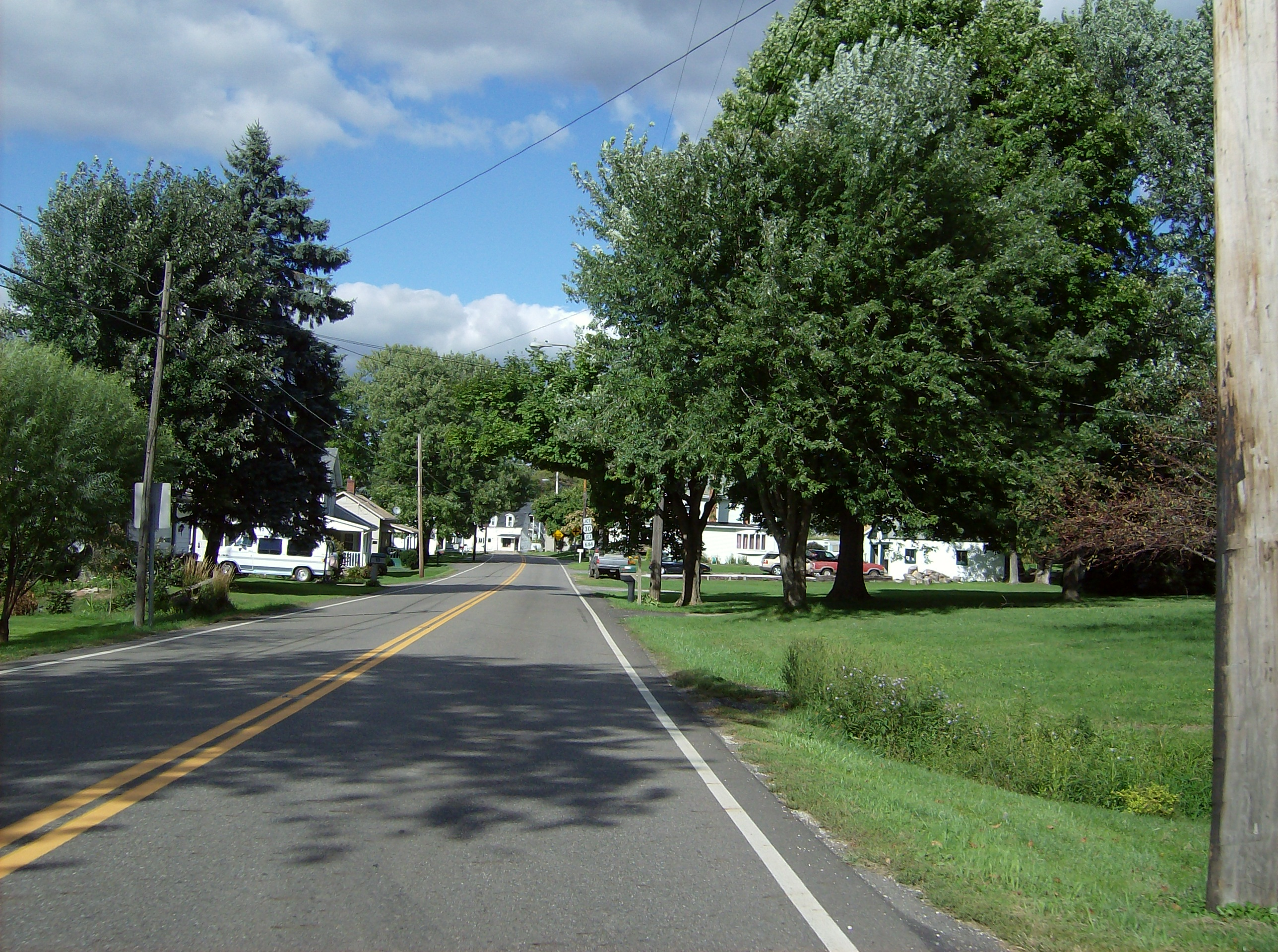 Along State Route 9, coming to the intersection with U.S. Route 30 in Kensington, Ohio, an unincorporated community in southwestern Hanover Township, Columbiana County, Ohio, United States.